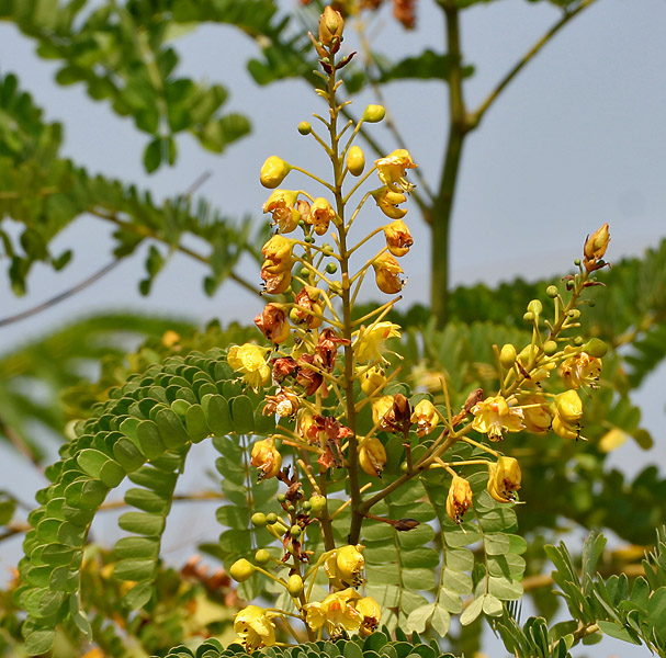 Caesalpinia sappan L. (syn. Biancaea sappan (L.)Tod.)- Sappanwood, Sapanwood, Bukkum-wood, Bois Sappan, Gangoor, Caesalpinia Sappan, Patamg, Bakam, Suou (Japanese); Burmese (teing-nyet); English (false sandalwood, Indian brazilwood, Indian redwood); Filipino (sapang, sibukao); French (bois de sappan,sappan); Hindi (bokmo, bakan, patungam, vakum, vakam, patunga); Indonesian (soga jawa, secang, kayu sekang, kayu cang); Javanese (soga jawa); Lao (Sino-Tibetan) (fang deeng, faang); Malay (sepang); Thai (ngaai, faang, fang som); Trade name (sappan lignum, brazilin, sappanwood); Vietnamese (tô môc,hang nhuôm)- in Herbal Garden, in Rangareddy district of Andhra Pradesh, India.